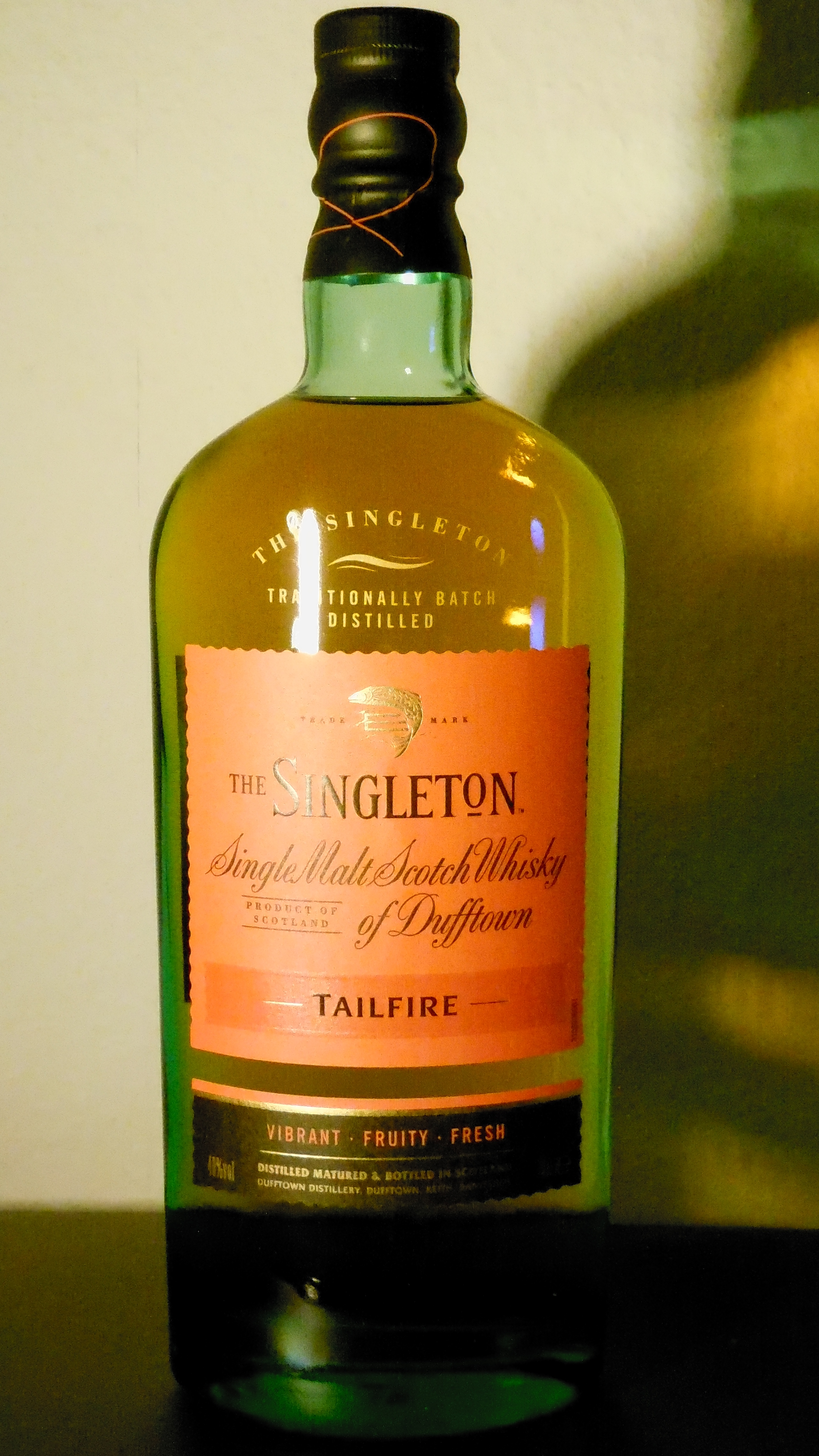 A bottle of "Singleton of Dufftown – Tailfire" Single Malt Whisky